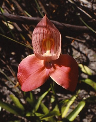 A pinker Disa uniflora, photographed in its natural habitat on a stream bank in the mountains near Ceres, Western Cape, South Africa